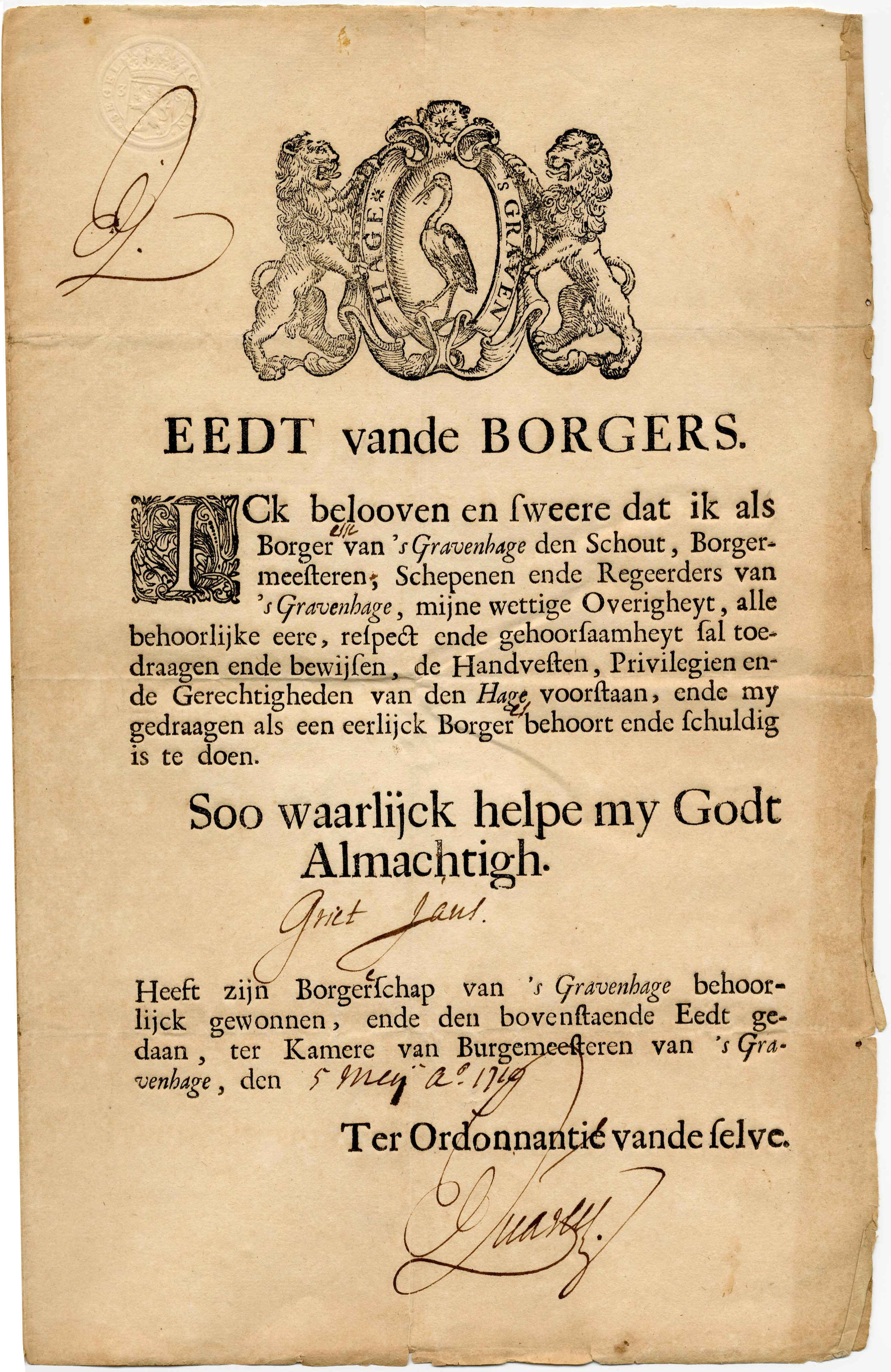 Oath of citizenship of the city of The Hague.